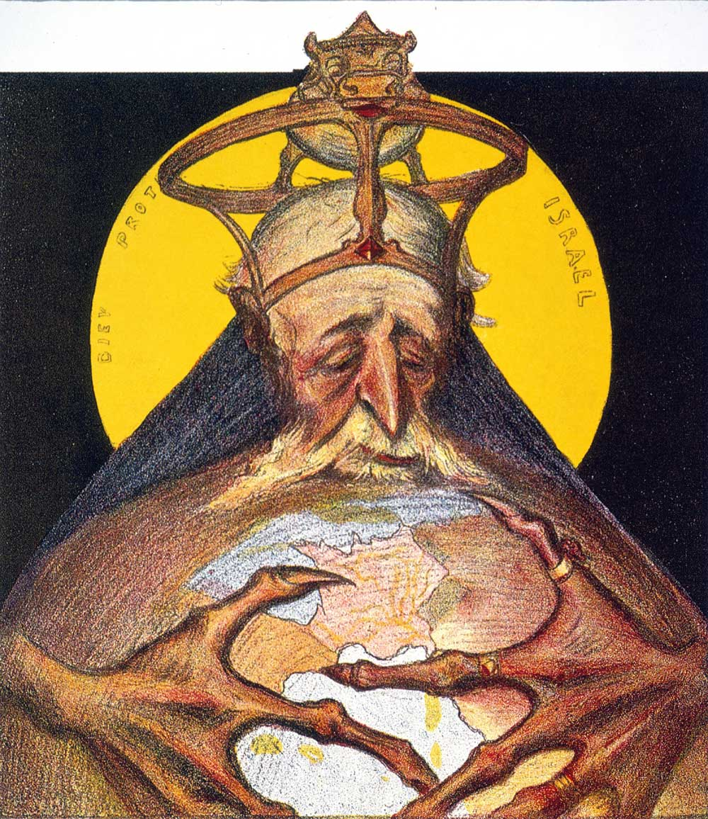 1898 cartoon showing Rothschild with the world in his hands. "Le roi Rothschild," by Charles Lucien Léandre, cover illustration for Le Rire, April 16th 1898.